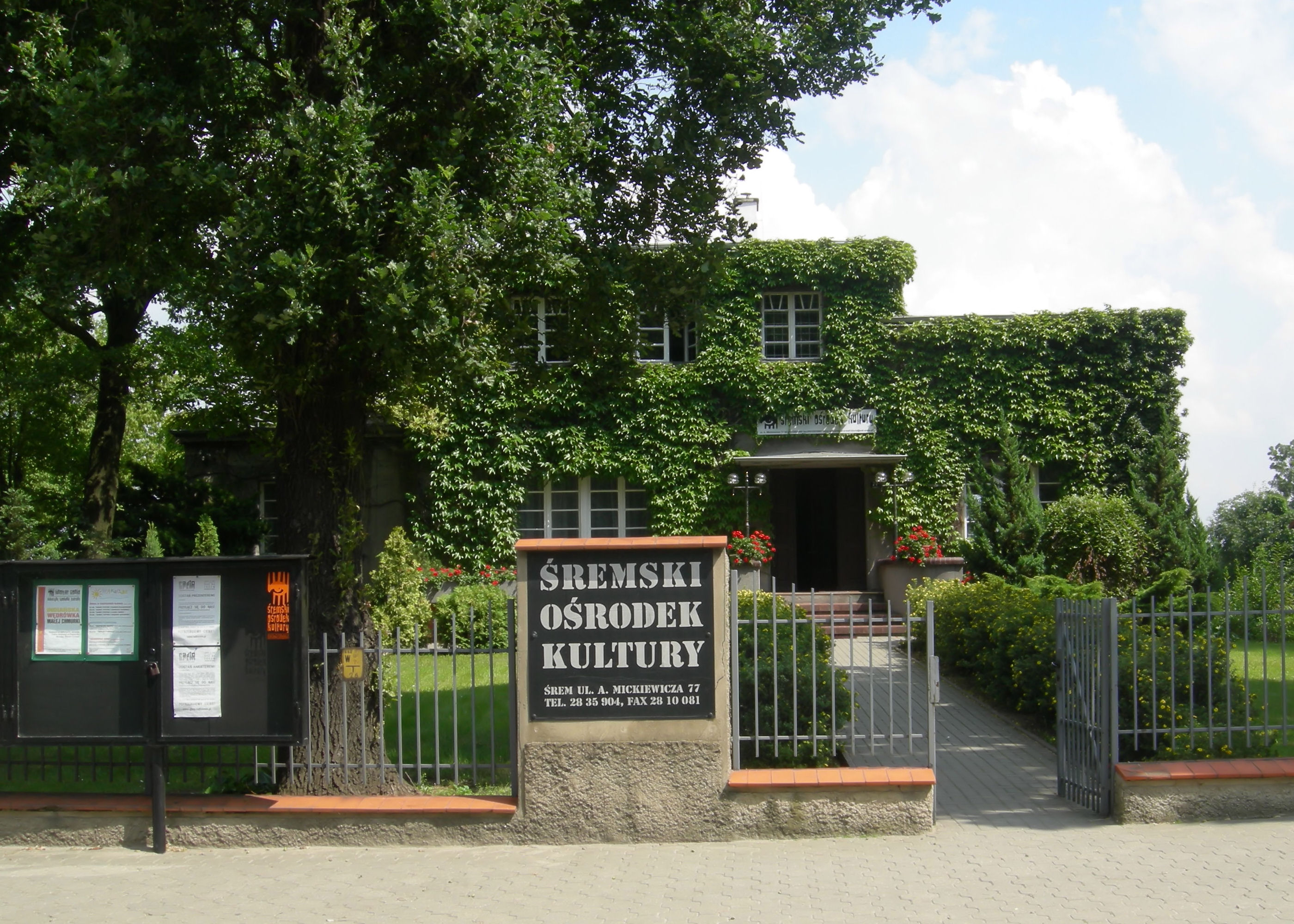 City center of culture, Śrem, Greater Poland Voivodeship , Poland